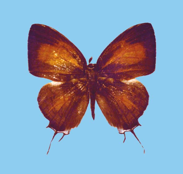 A specimen of Drupadia theda nobumasai, male underside